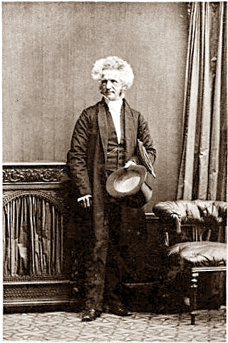 Solomon Caesar Malan. National Portrait Gallery, London